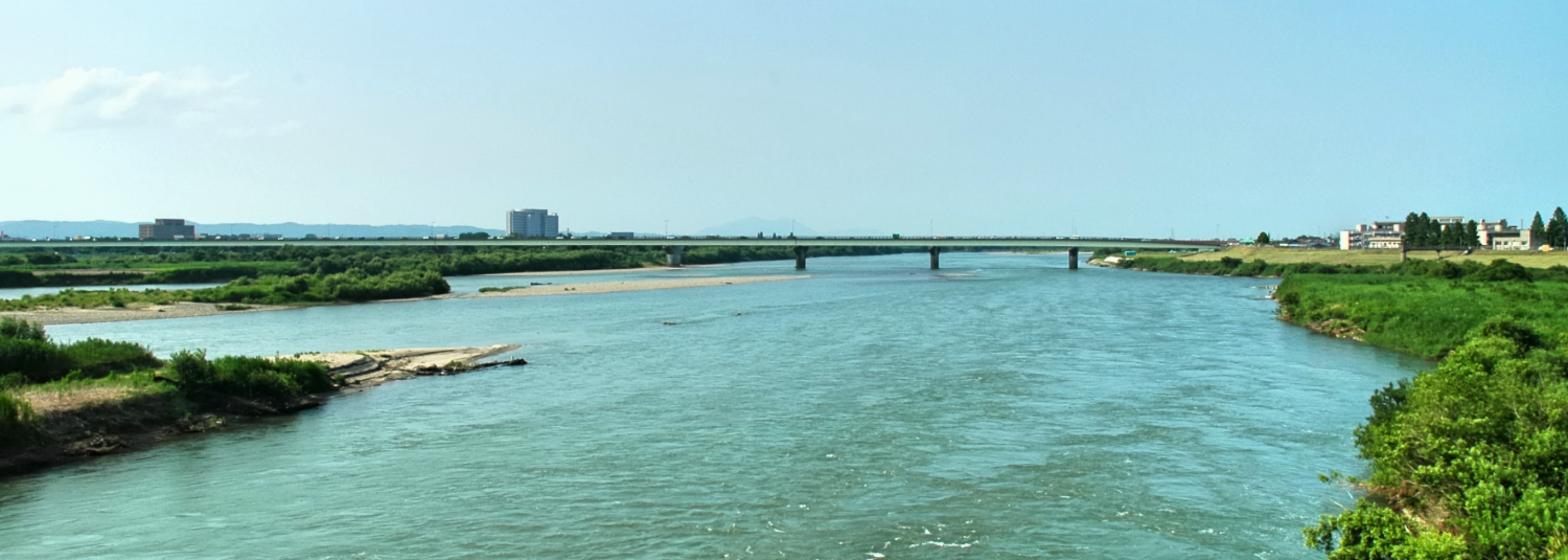 Ōte Ōhashi Bridge and Shinano River. View from Chōsei Bridge, Nagaoka, Niigata Prefecture, Japan.